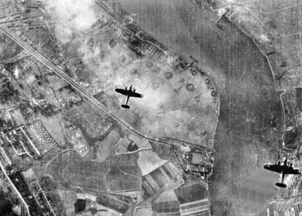 Two Dornier Do 17Z aircraft of the German Air Force (Luftwaffe) flying above the Thames River near Royal Arsenal, Woolwich (UK), during a German bombing attack during the Battle of Britain.